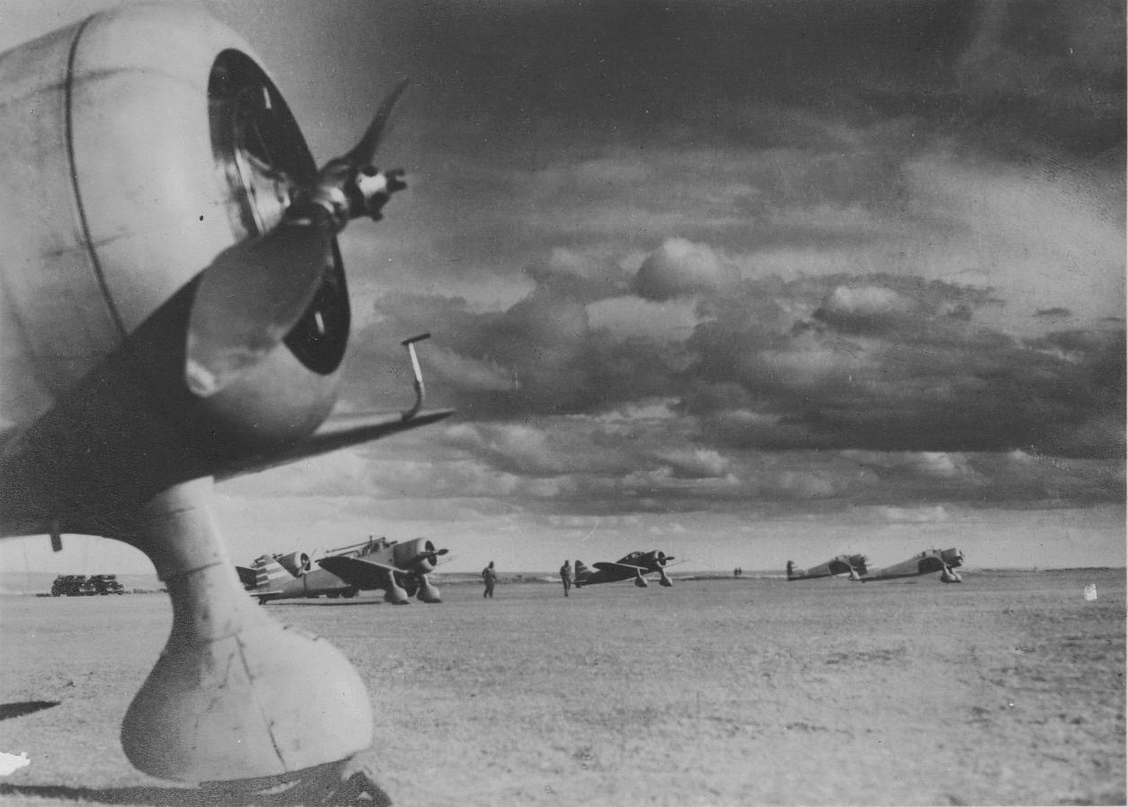 Nakajima Ki-27 at Nomonhan (Battle of Khalkhin Gol)